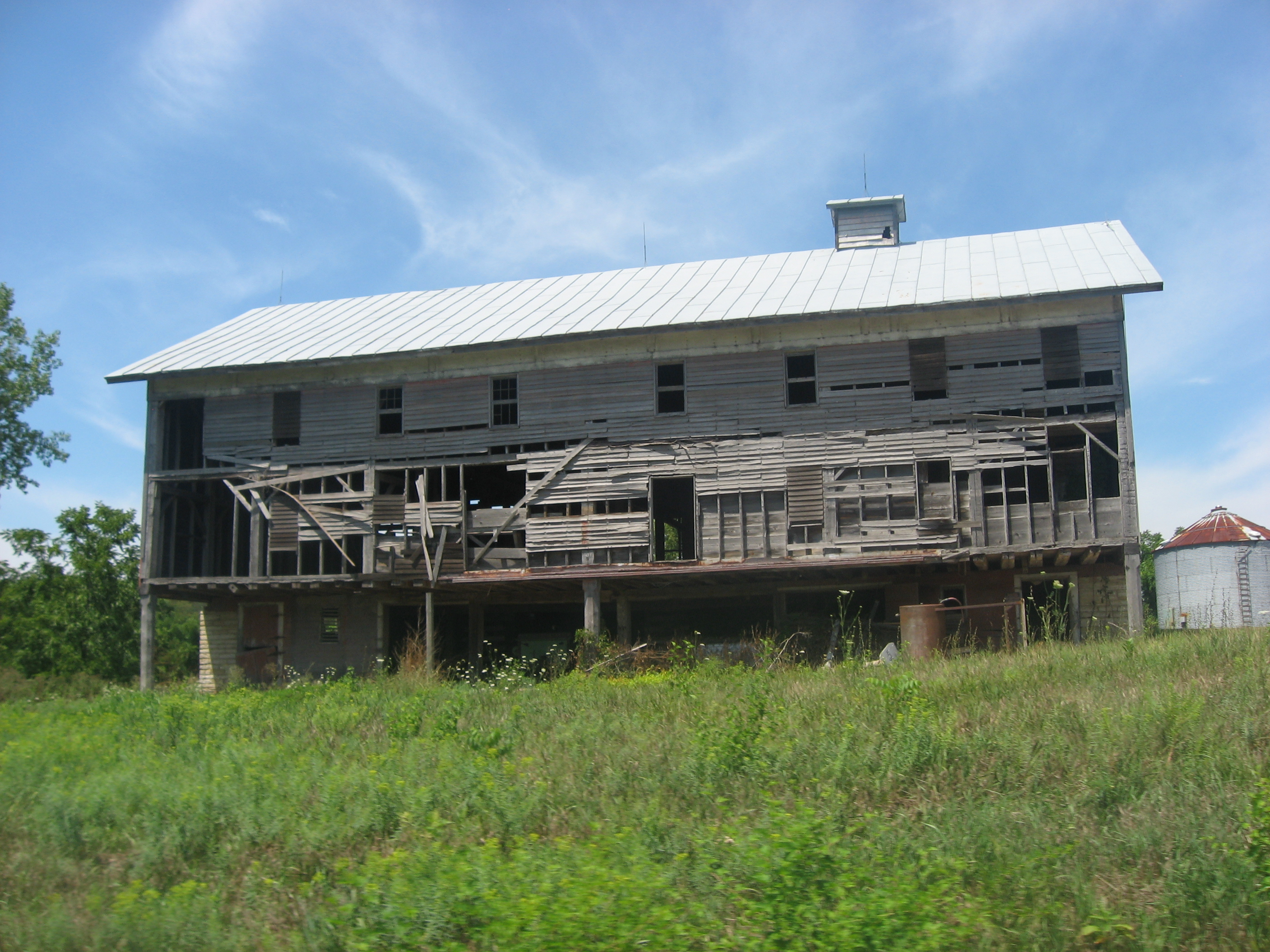 Front of the Teague Barn Wabash Importing Company Farm Stable, located at 4568 W. Mill Creek Pike southwest of Wabash in Noble Township, Wabash County, Indiana, United States. Built in 1861, it is listed on the National Register of Historic Places.